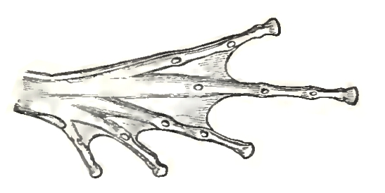 Indirana semipalmata lower surface of foot, showing half-webbed toes that distinguishes it from Indirana beddomii and Indirana leptodactyla